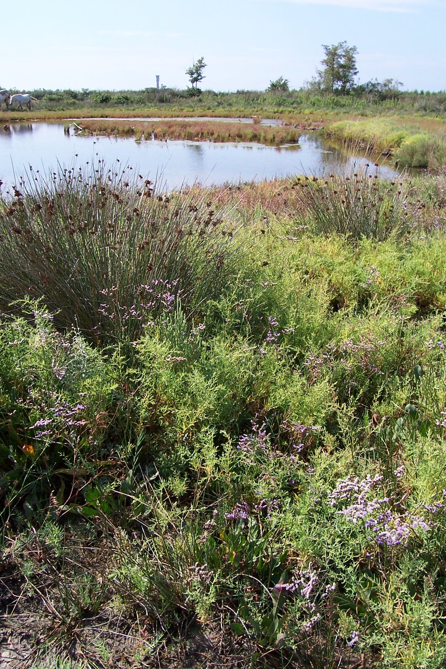 Marsch vegetation. Location: Cona Island (Staranzano, Italy). Limonium sp. and Juncus sp. are clearly visible (both Limonium and Juncus are flowering). In left-up corner of the picture, two Camargue horses freely roaming in this wet land (Cona Island, Staranzano, Italy) are visible at distance.